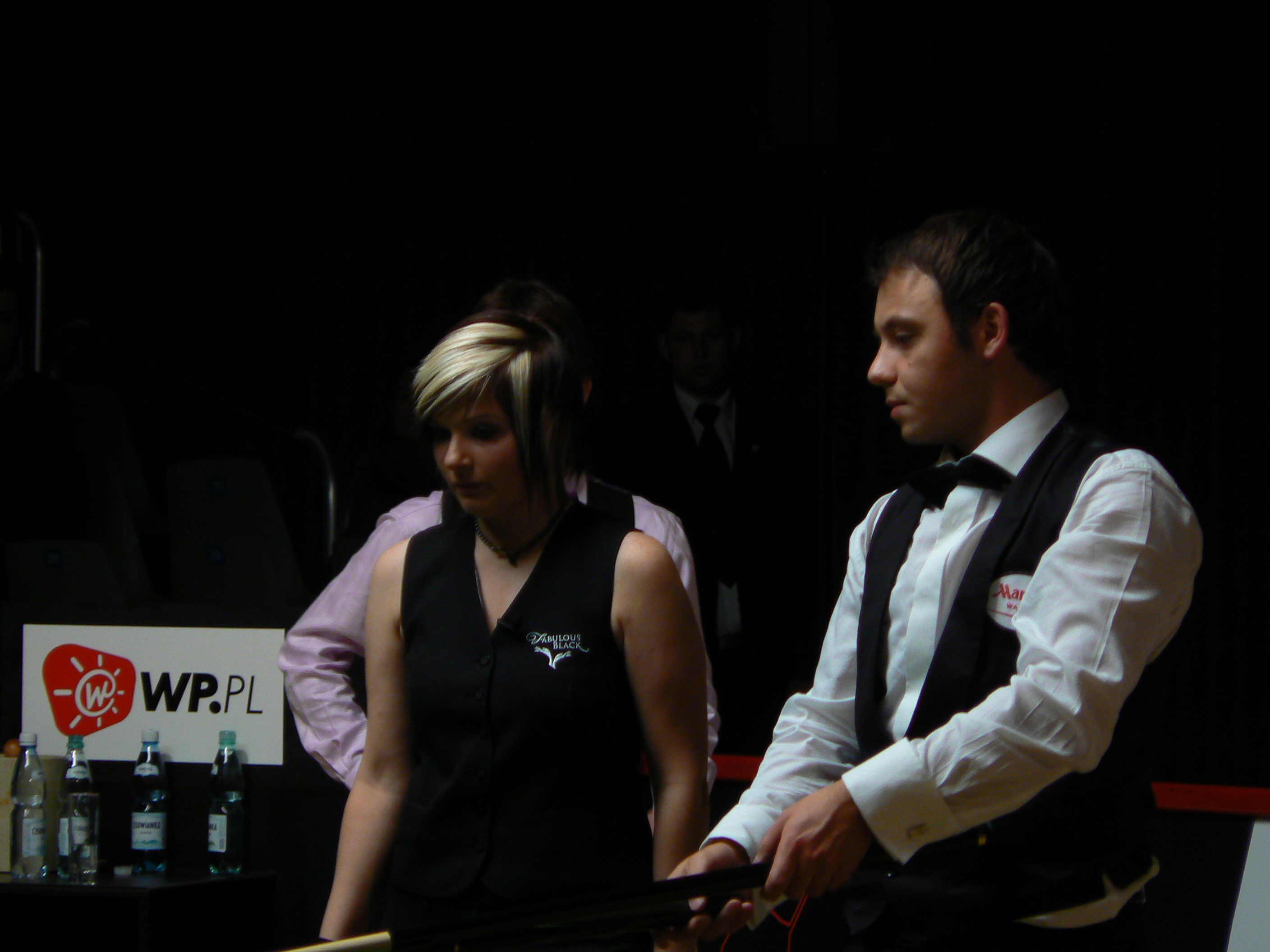 World Series of Snooker 2008 Warsaw - quarterfinals with Robert Górecki and Ken Doherty. The game was judged by Patricia Murphy (on photo).